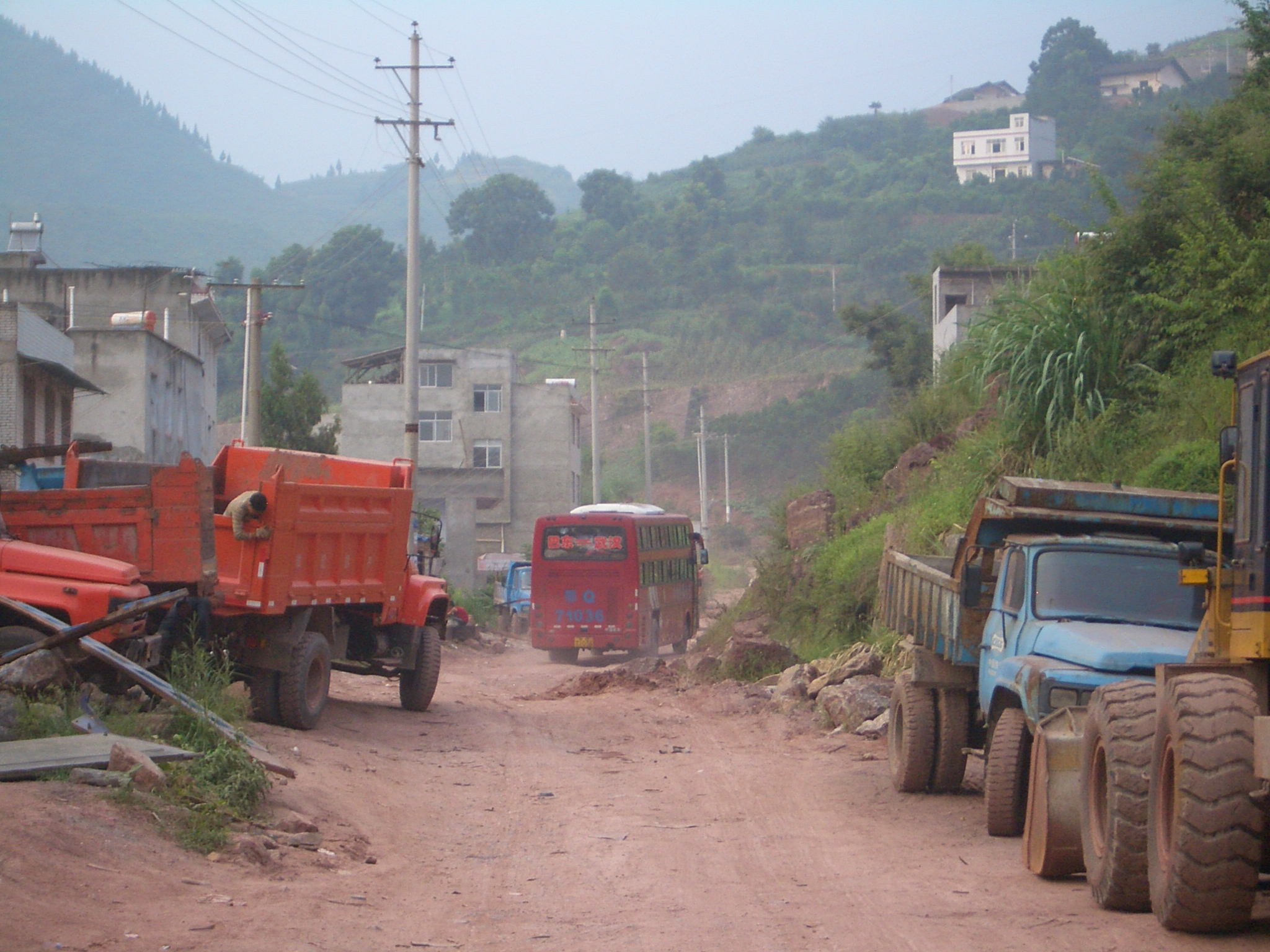 China National Highway G209 on the northern outskirts of Badong. The road is like this for the next 20 km to the north, although road work is conducted in places. The red two-level bus seen in the photo runs on the Badong-Wuhan route. It's probably a sleeper bus (this is an overnight trip).